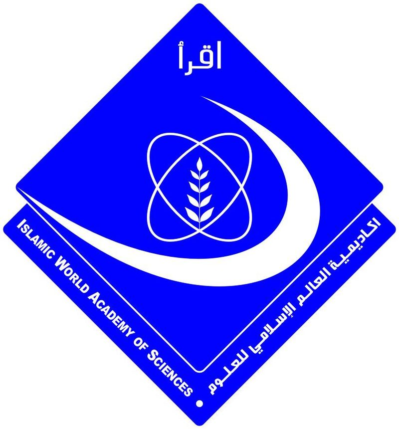 IAS